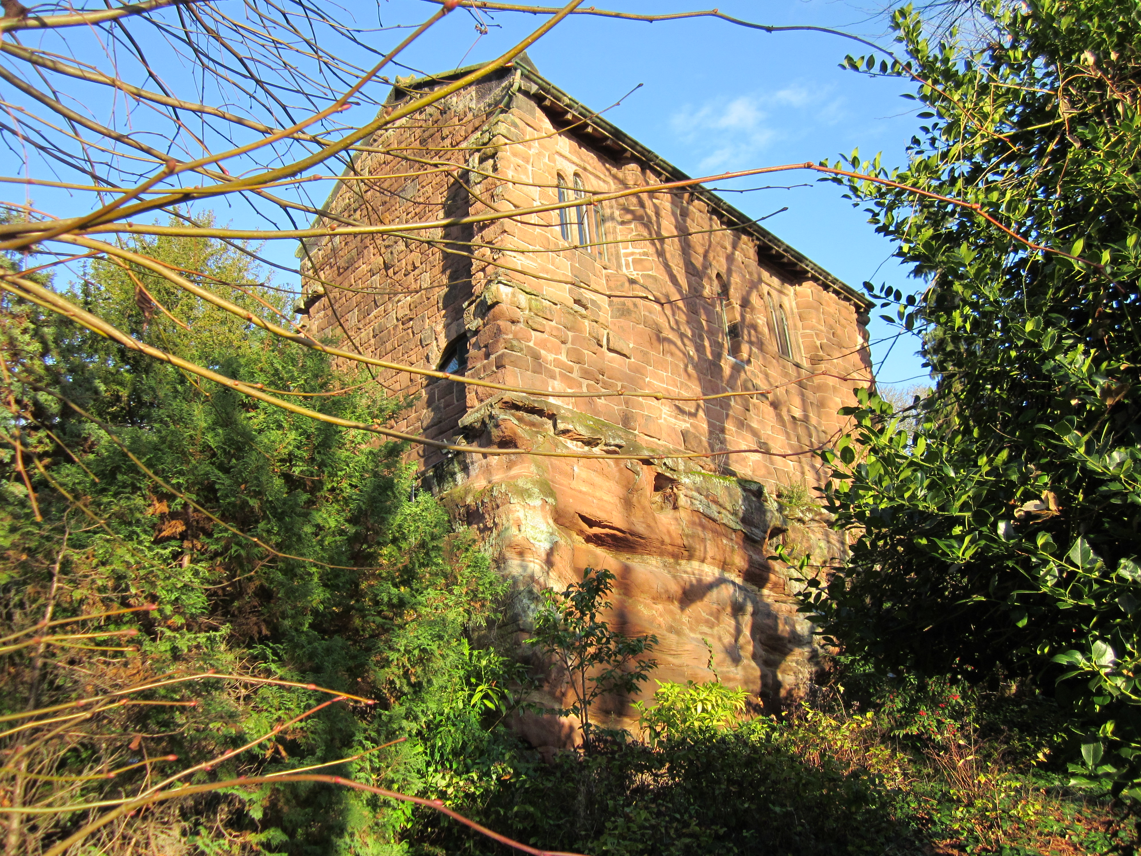 Photograph of the Anchorite's Cell (or the Hermitage), Chester